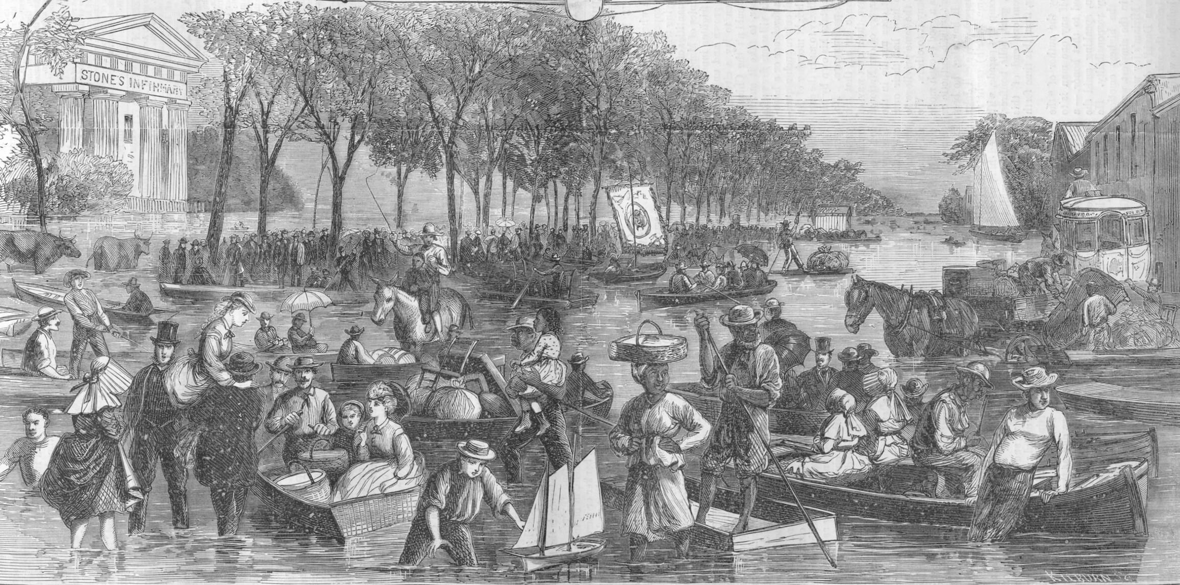 Flood in New Orleans, 1871. View shows Canal Street at Claiborne, after the breech of the Hagan Avenue Levee protecting the city from Lake Pontchartrain while the lake was swollen from the Bonnet Carree Crevasse.